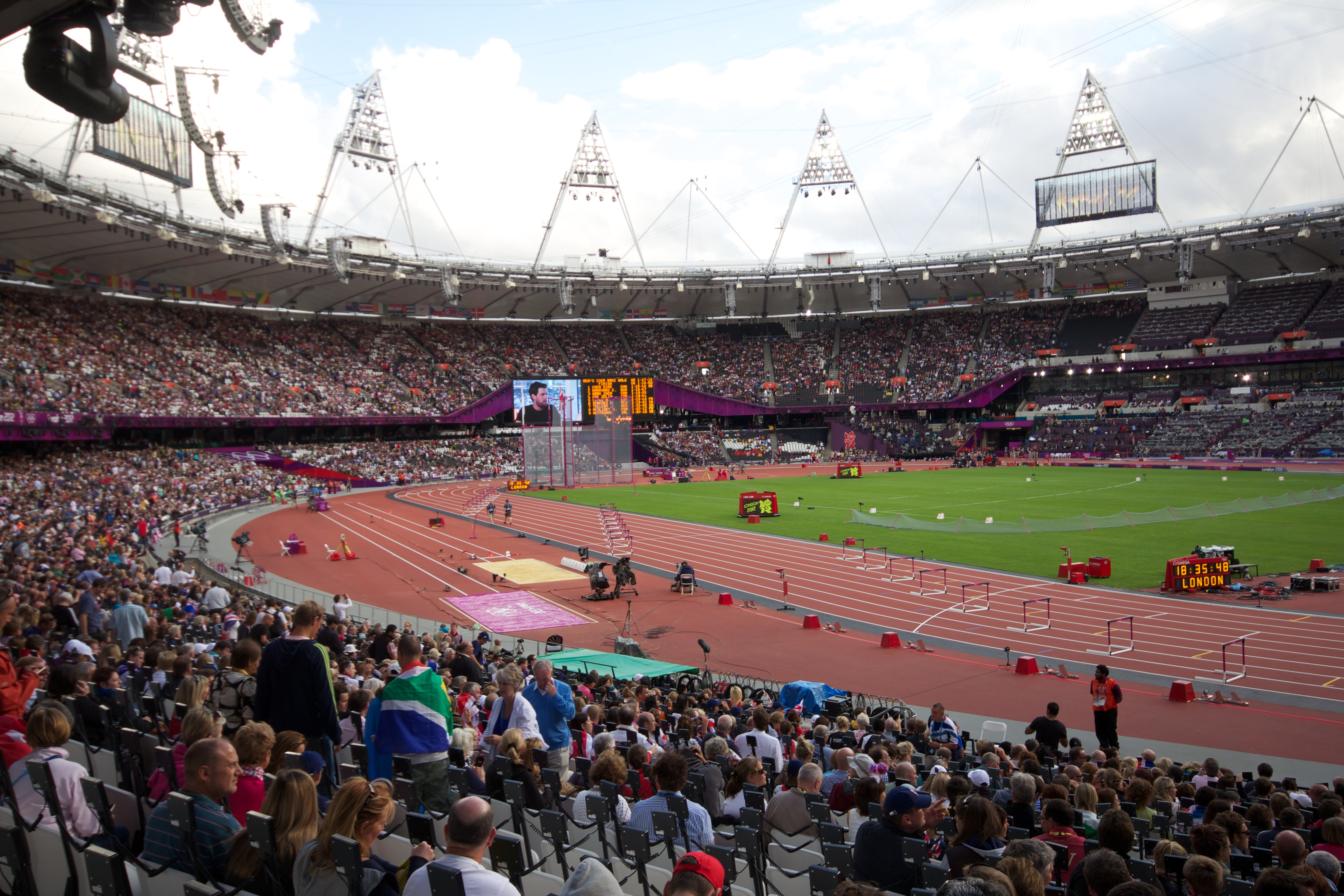 Stadium filling up now, with hurdles set up for Men's 400m Hurdles Semifinals. Looking also towards the Men's Long Jump Final preparations